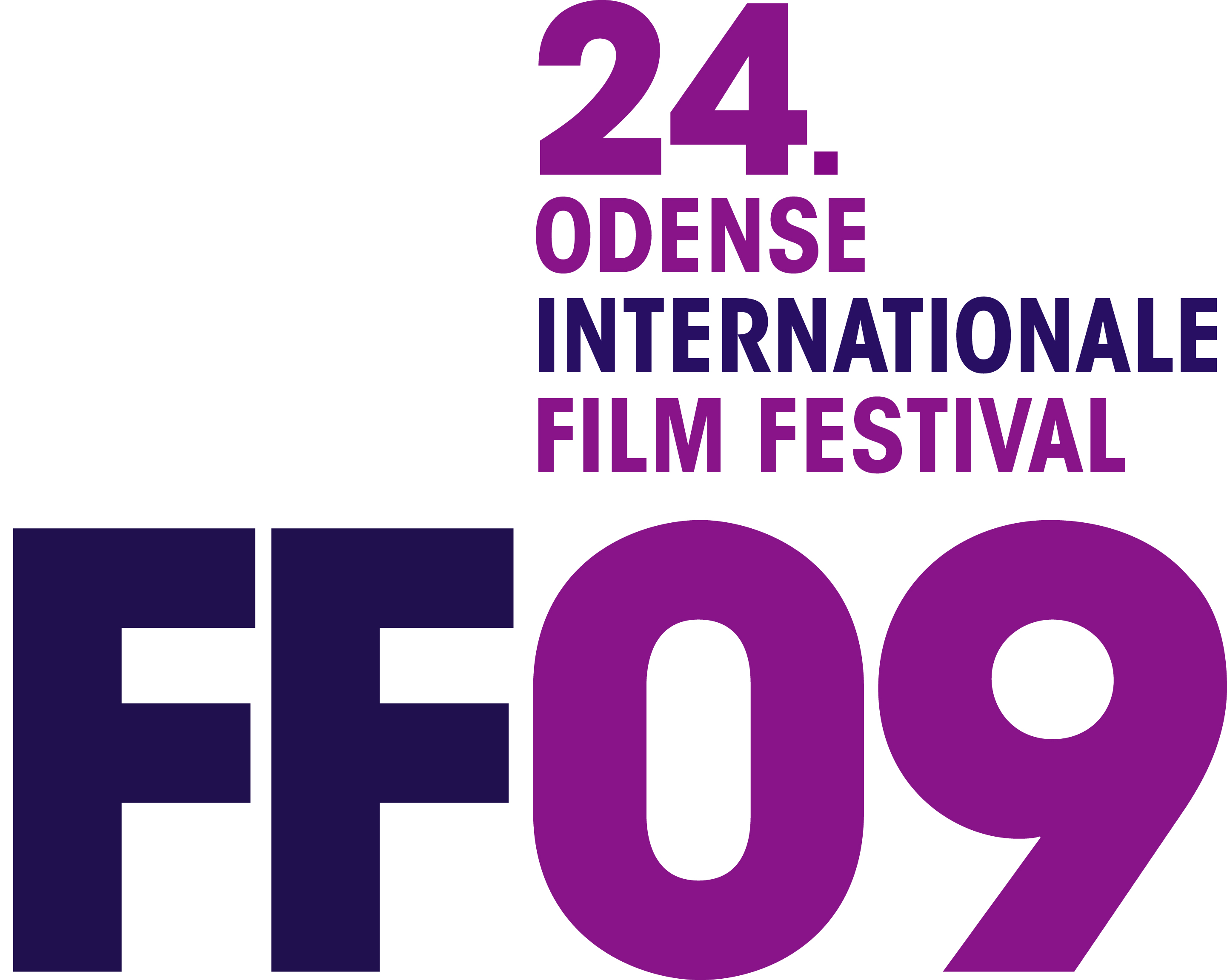 Cropped edition of logo for Odense Internationale Film Festival 2009. The logo has been cropped not to include copyrighted artwork (the remain part hasn't threshold of originality). The part, that has ben removed is a purple "O" to the left (with some artistic elements).